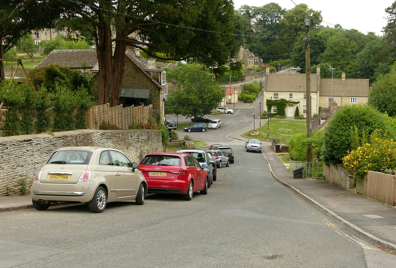 Gumstool Hill, Tetbury